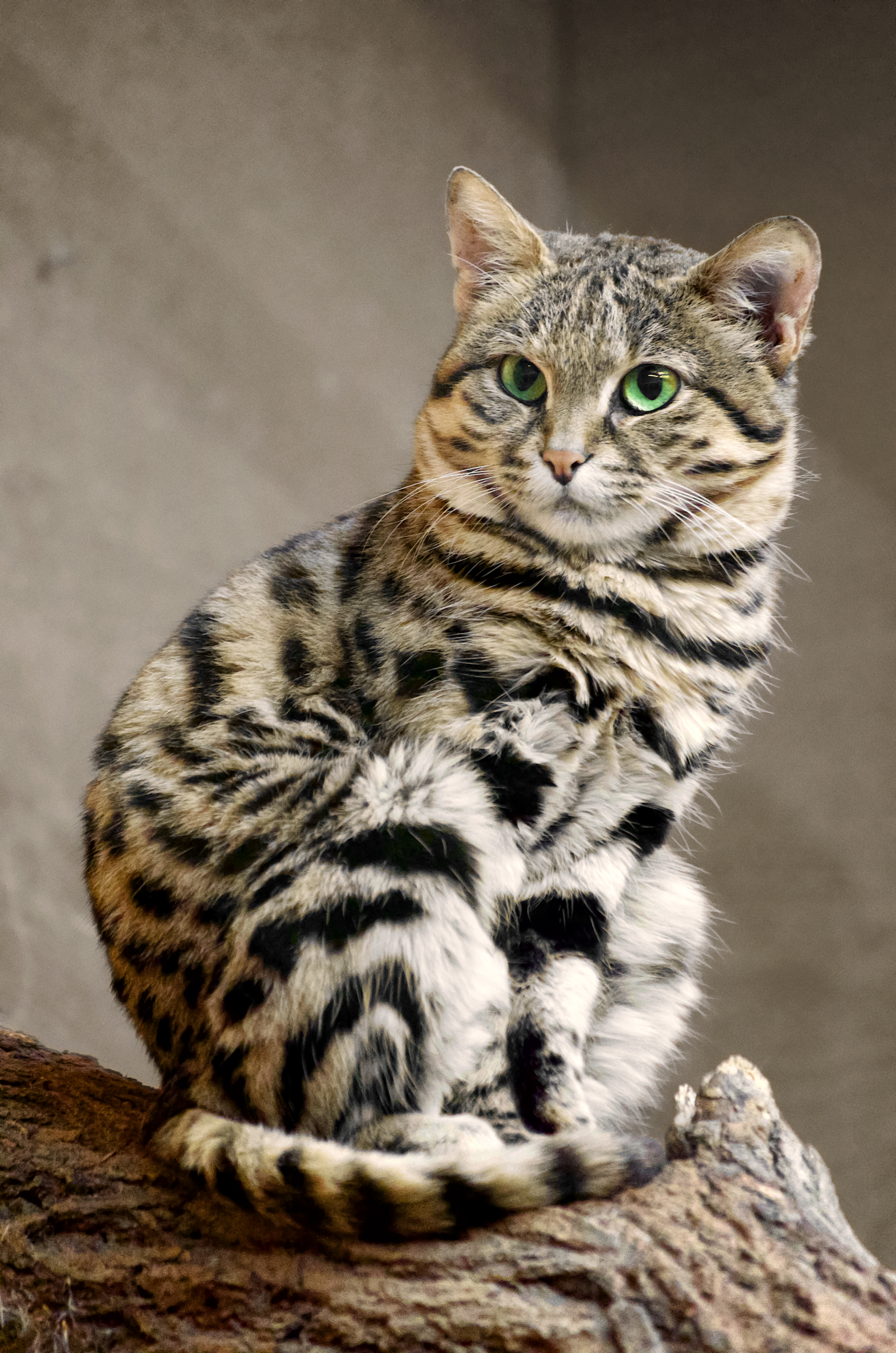 Felis nigripes at Zoo Wuppertal, Germany